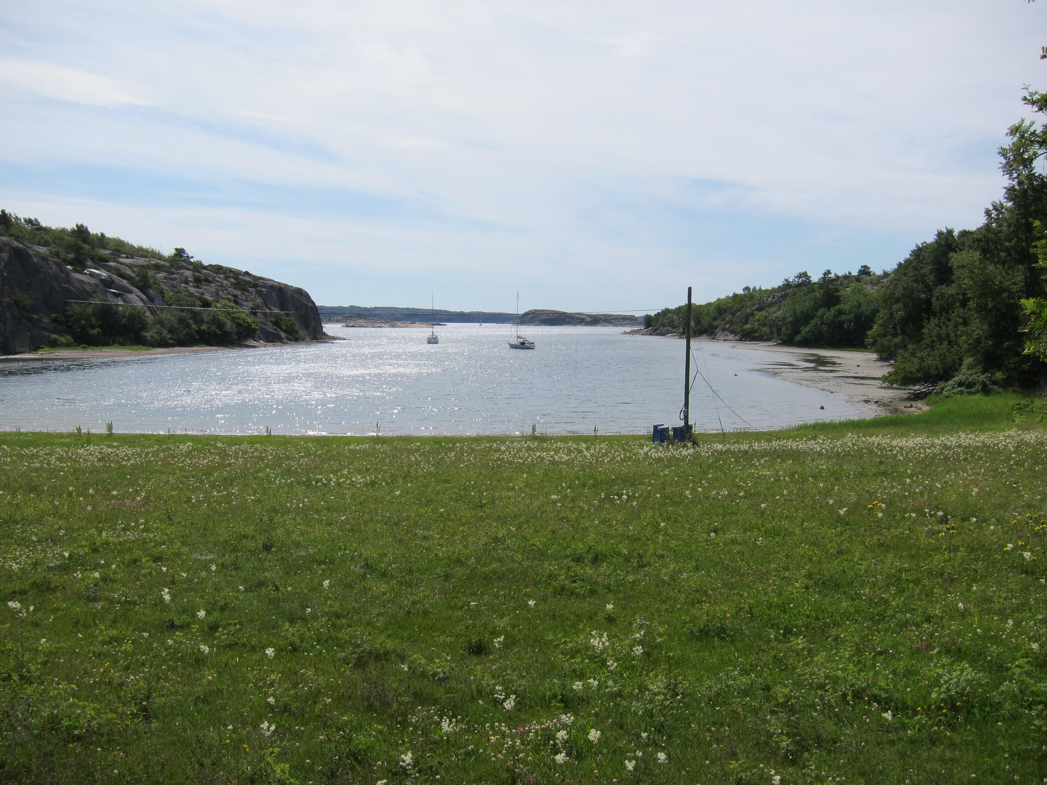 Dyvik, otteron, sweden